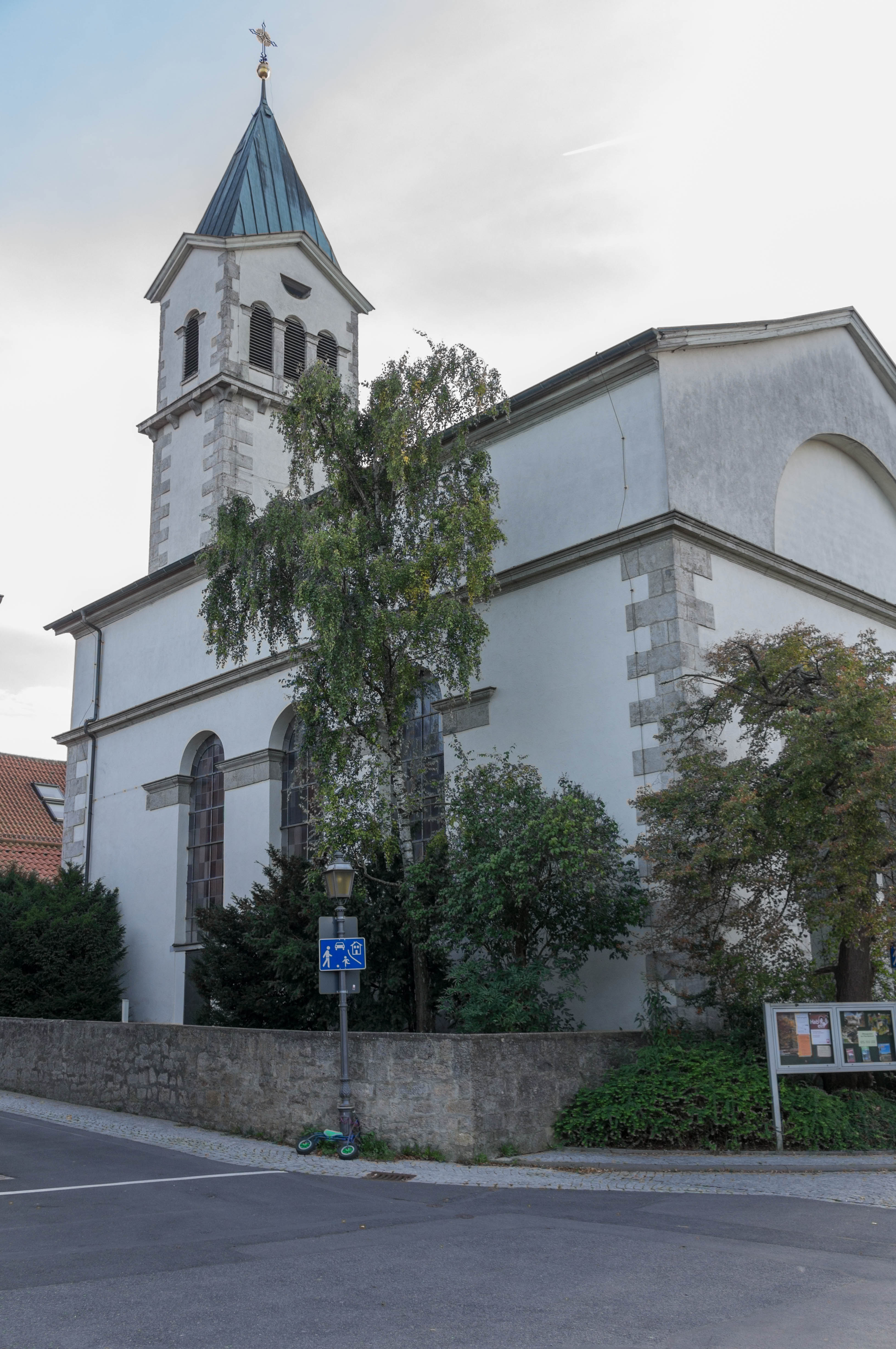 This is a photograph of an architectural monument.